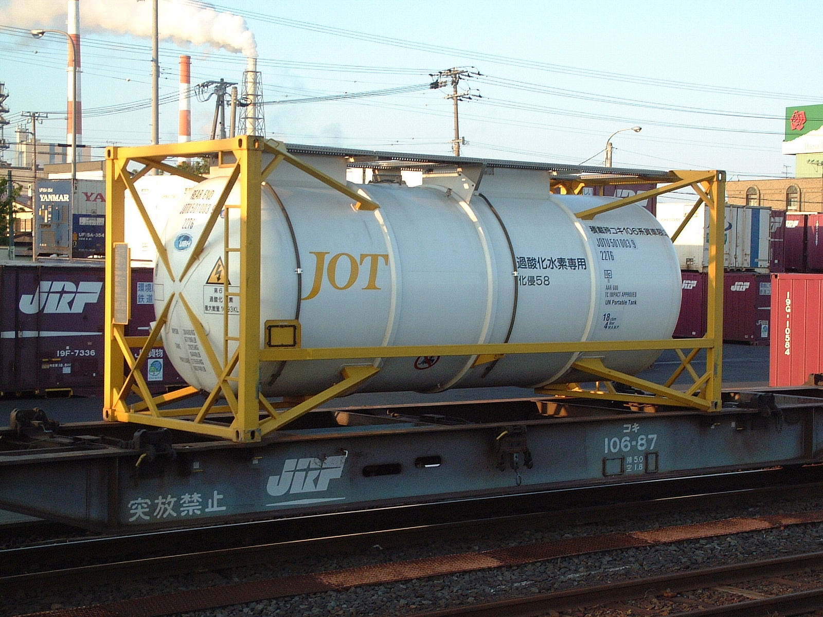 ISO tank container for Hydrogen peroxide transportation that JOT (Japan Oil Transportation Co. Limited.) owns.(JOTU501003_9 22T6)